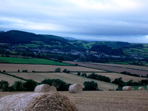 View from Stapleton hill looking towards Presteigne. Taken by Daniel Price, August 2007. Should be in Stapleton article